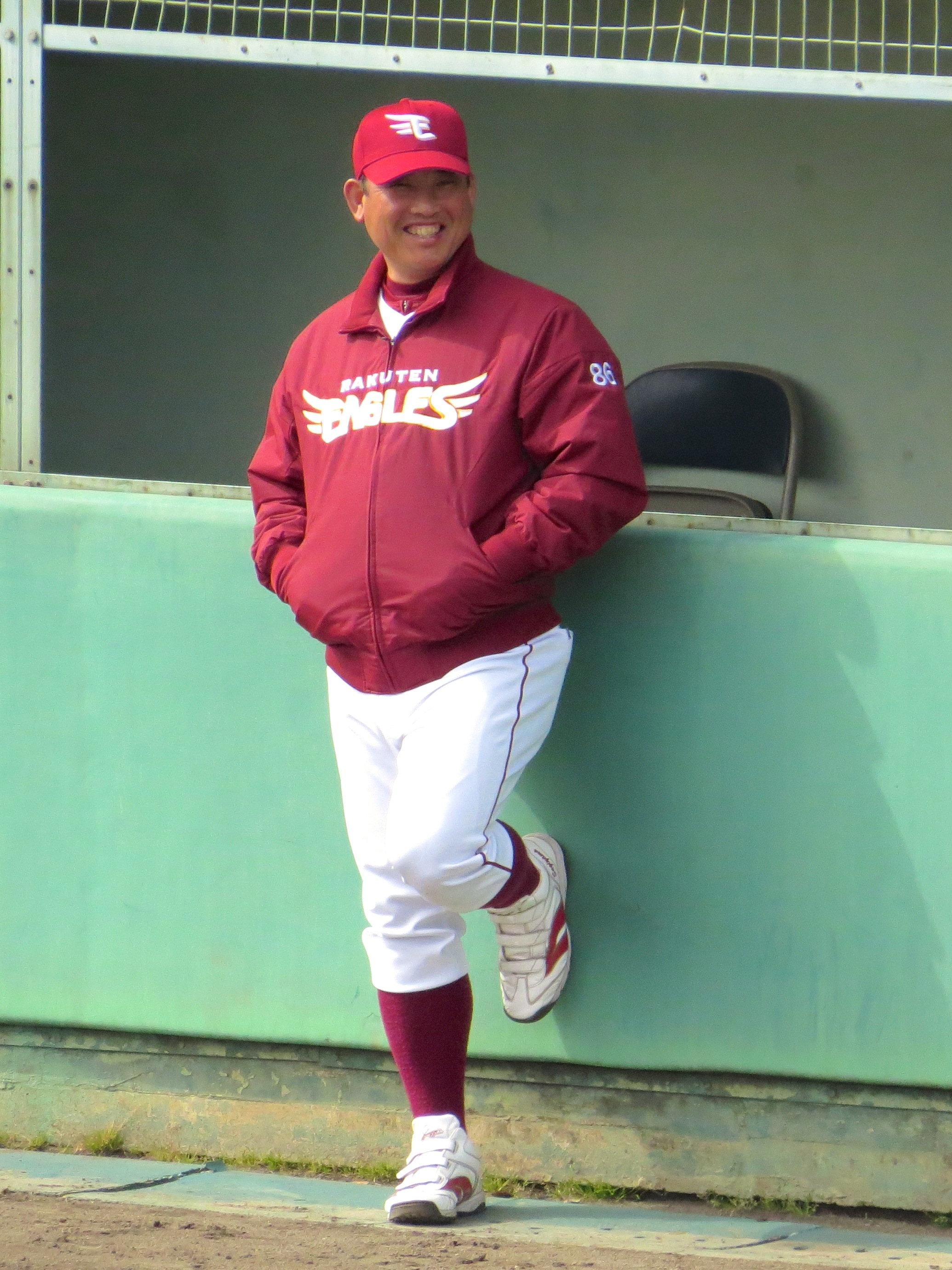 Kento Sugiyama, coach of the Tohoku Rakuten Golden Eagles, at Saitama Municipal Urawa Baseball Stadium.